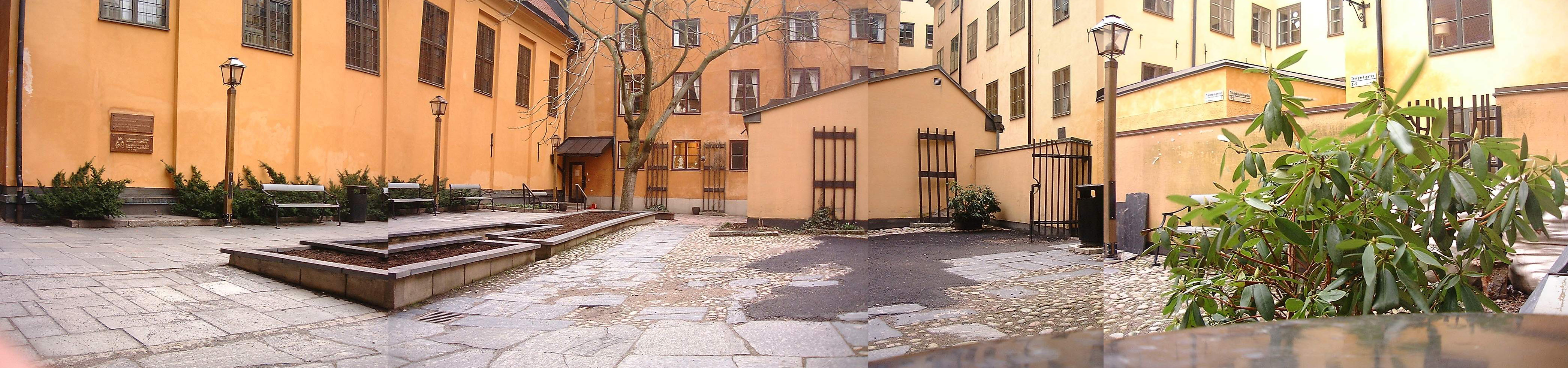 Panoramic view of Bollhustäppan, Gamla stan, Stockholm. Composite of four images.